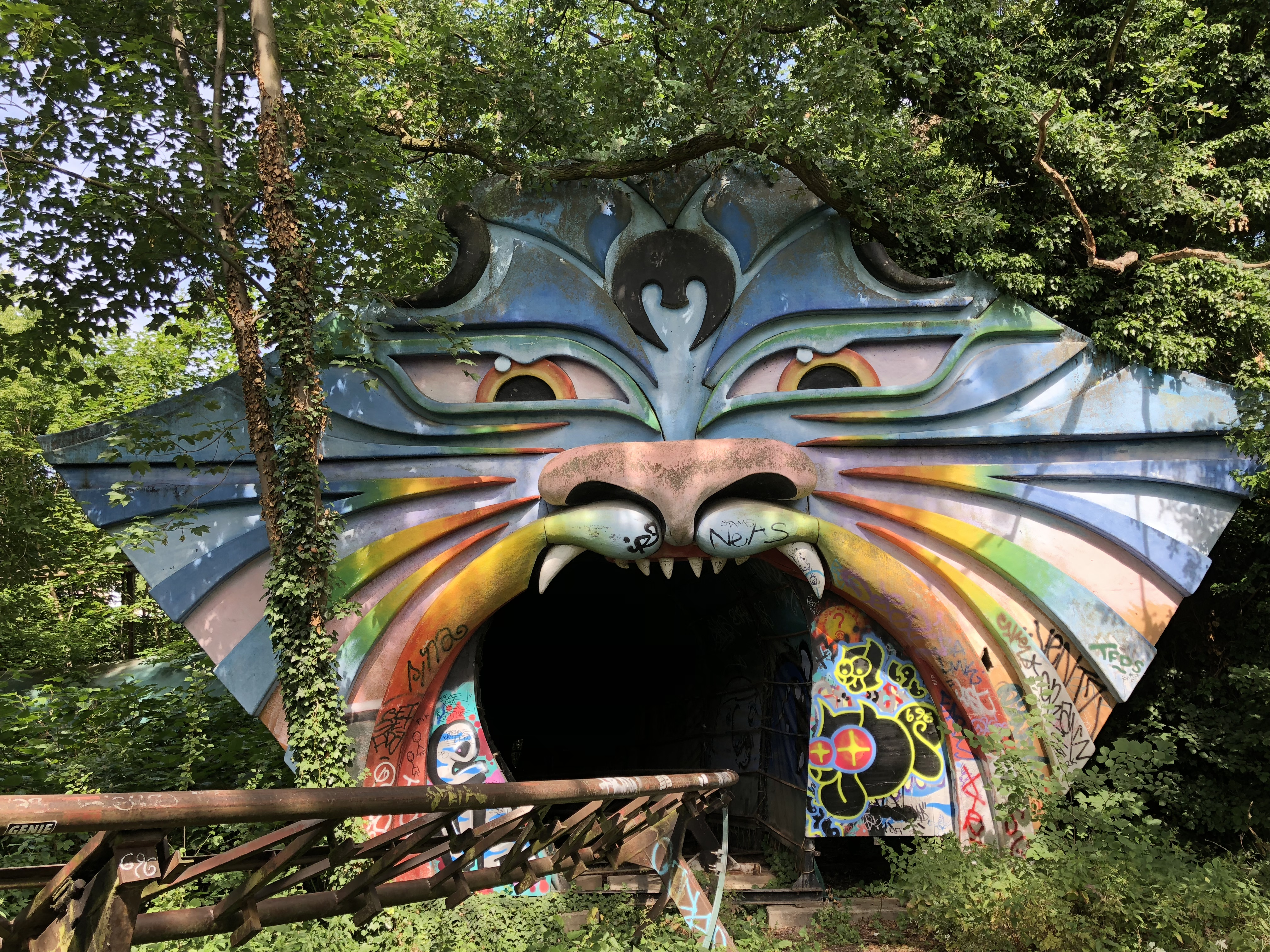 Das Bild zeigt den Tunnel einer Achterbahn aus dem ehemaligen Spreepark Berlin